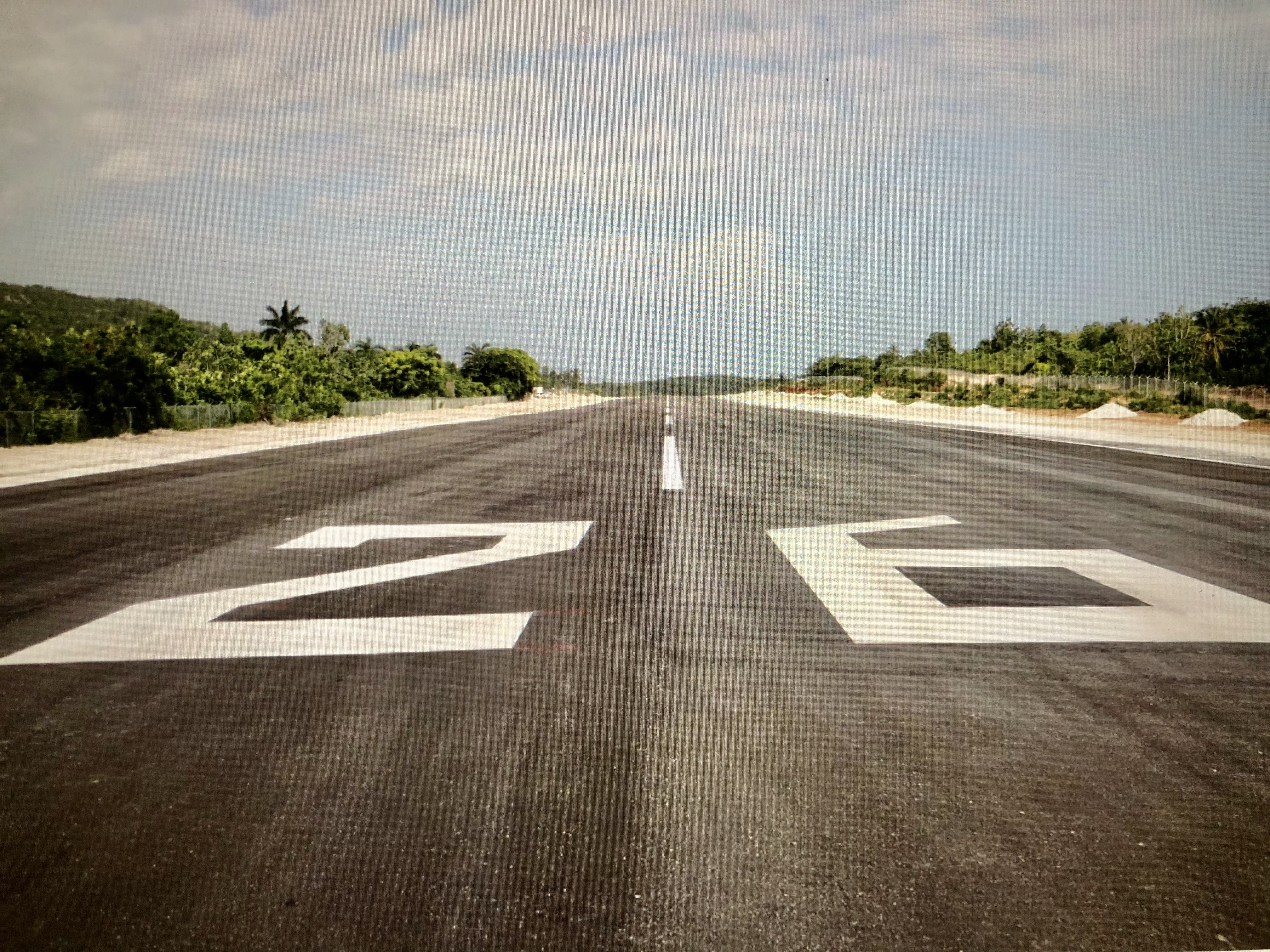 Updated runway